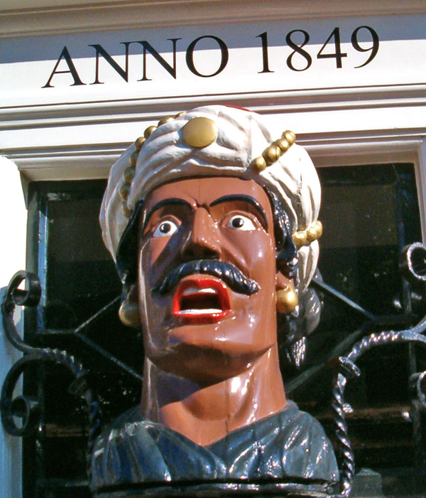 Logo of famous shop "Van der Pigge" in Haarlem